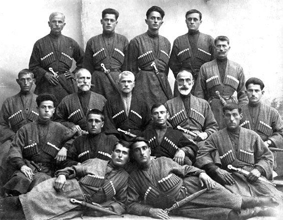 In this photo Georgian cavalry from Shida-kartli and Kakheti regions. The photo was taken in 19th century. Exact date is unknown.